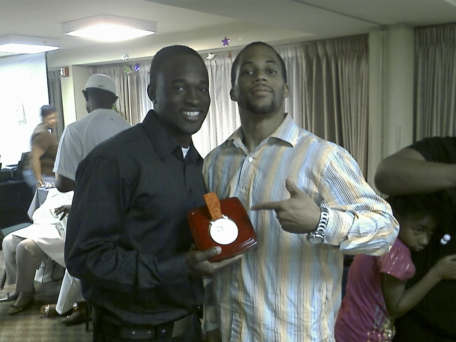 A picture taken at the celebration of his silver medal.